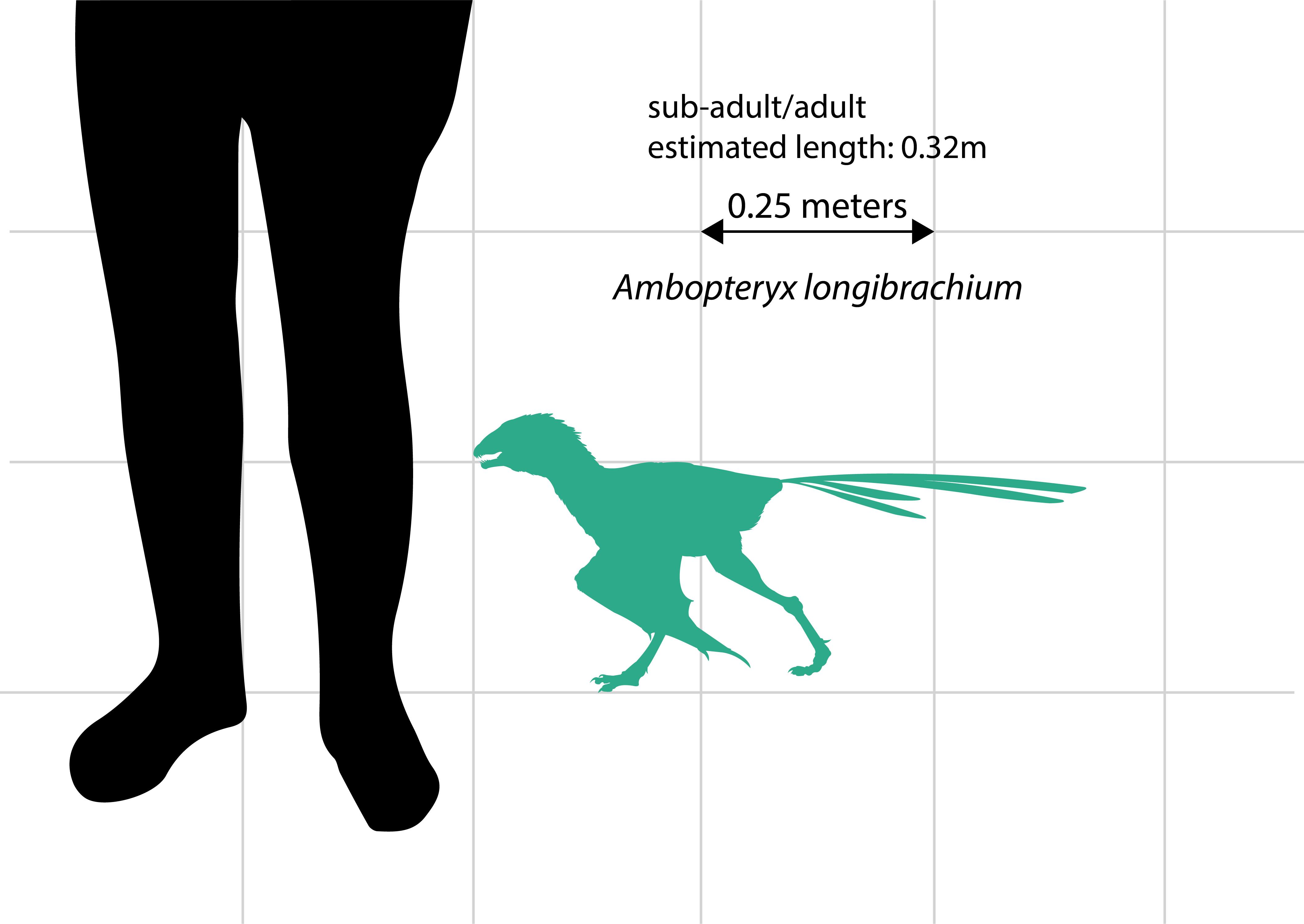 Ambopteryx longibrachium in comparison to an average adult human male